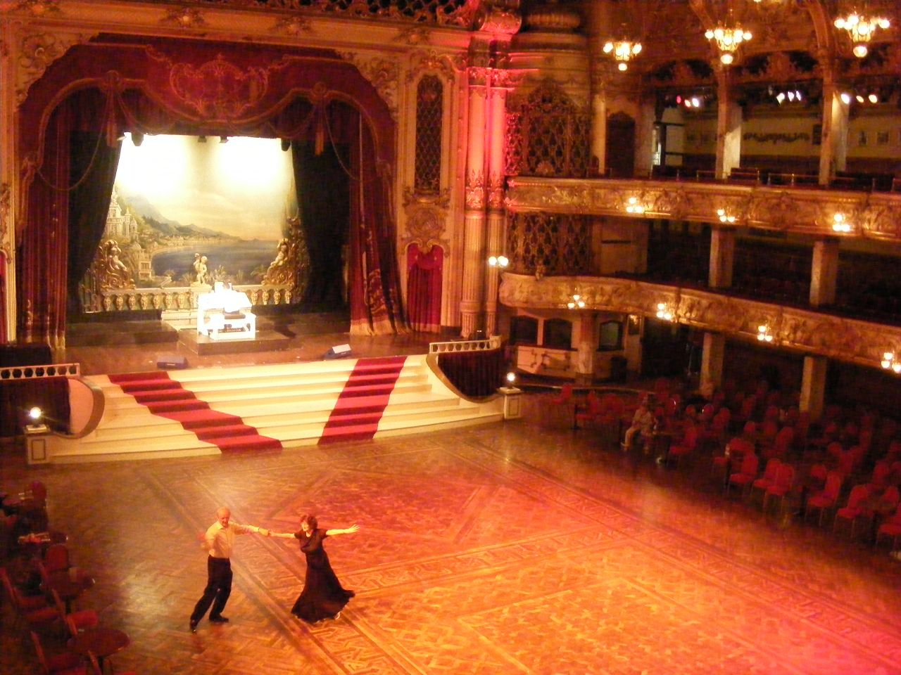 Tower Ballroom, Blackpool